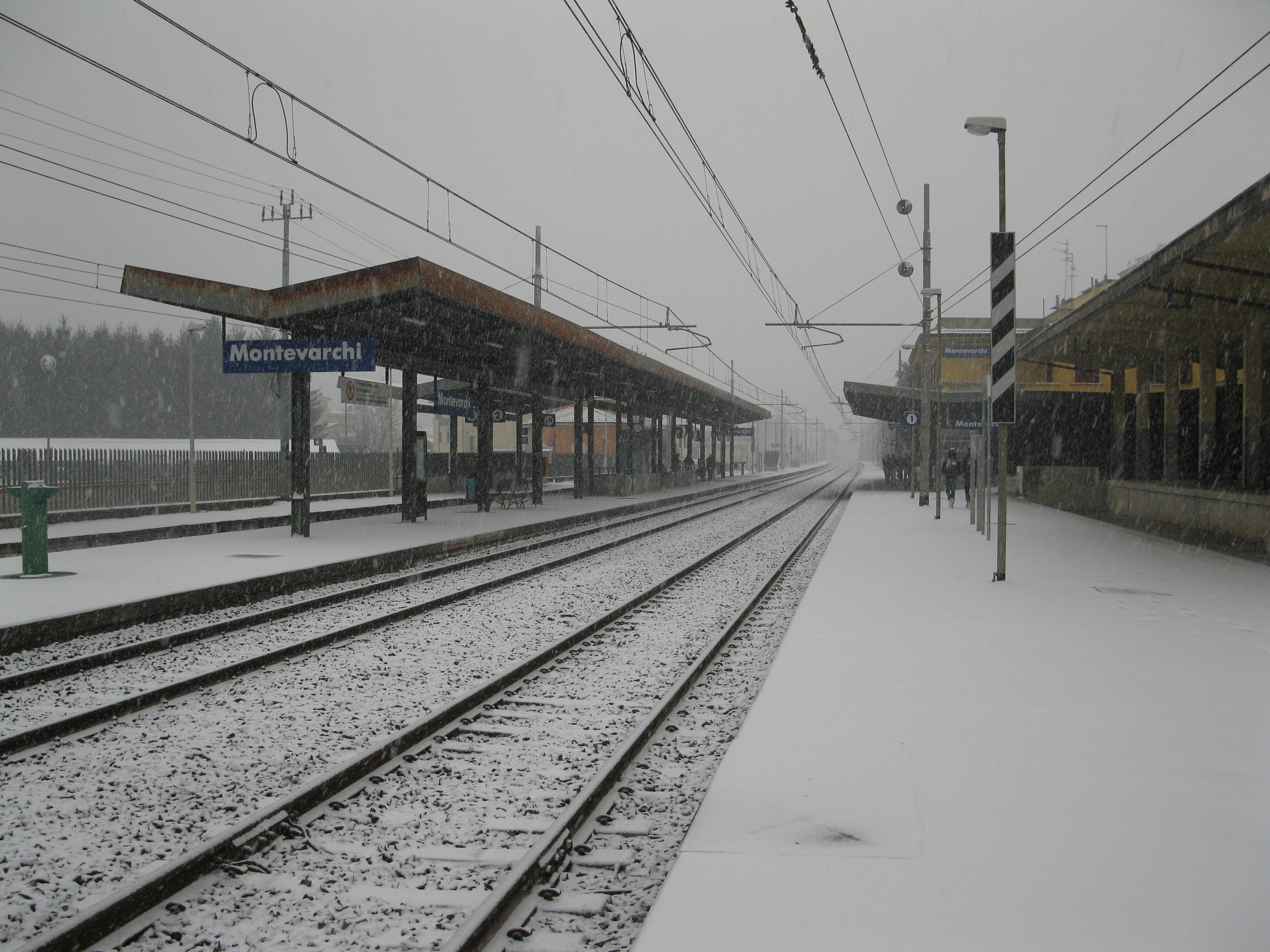 Montevarchi railway station, after a snowfall.